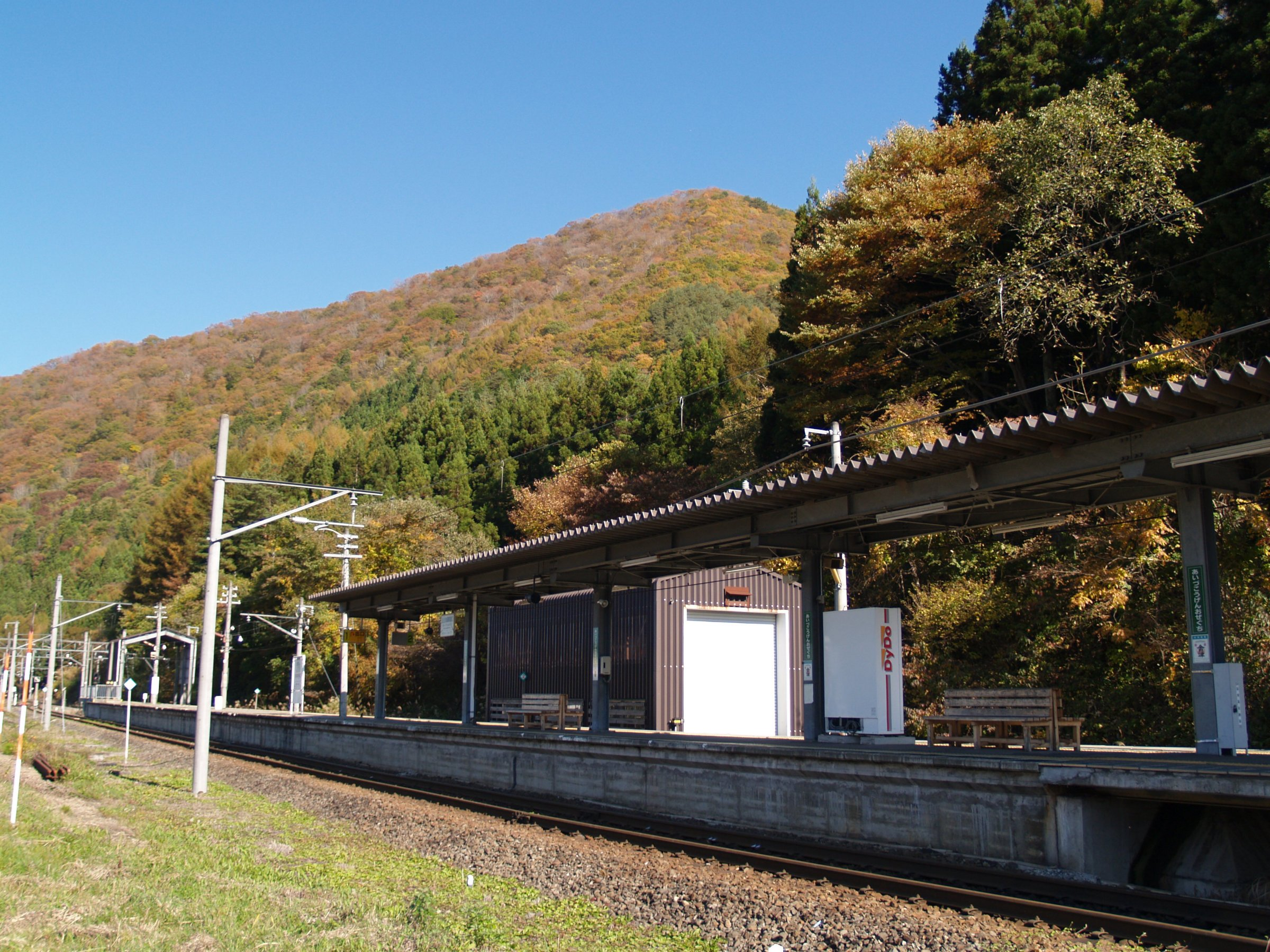 Platform of Aizukōgen-Ozeguchi Station, Fukushima Pref., Japan